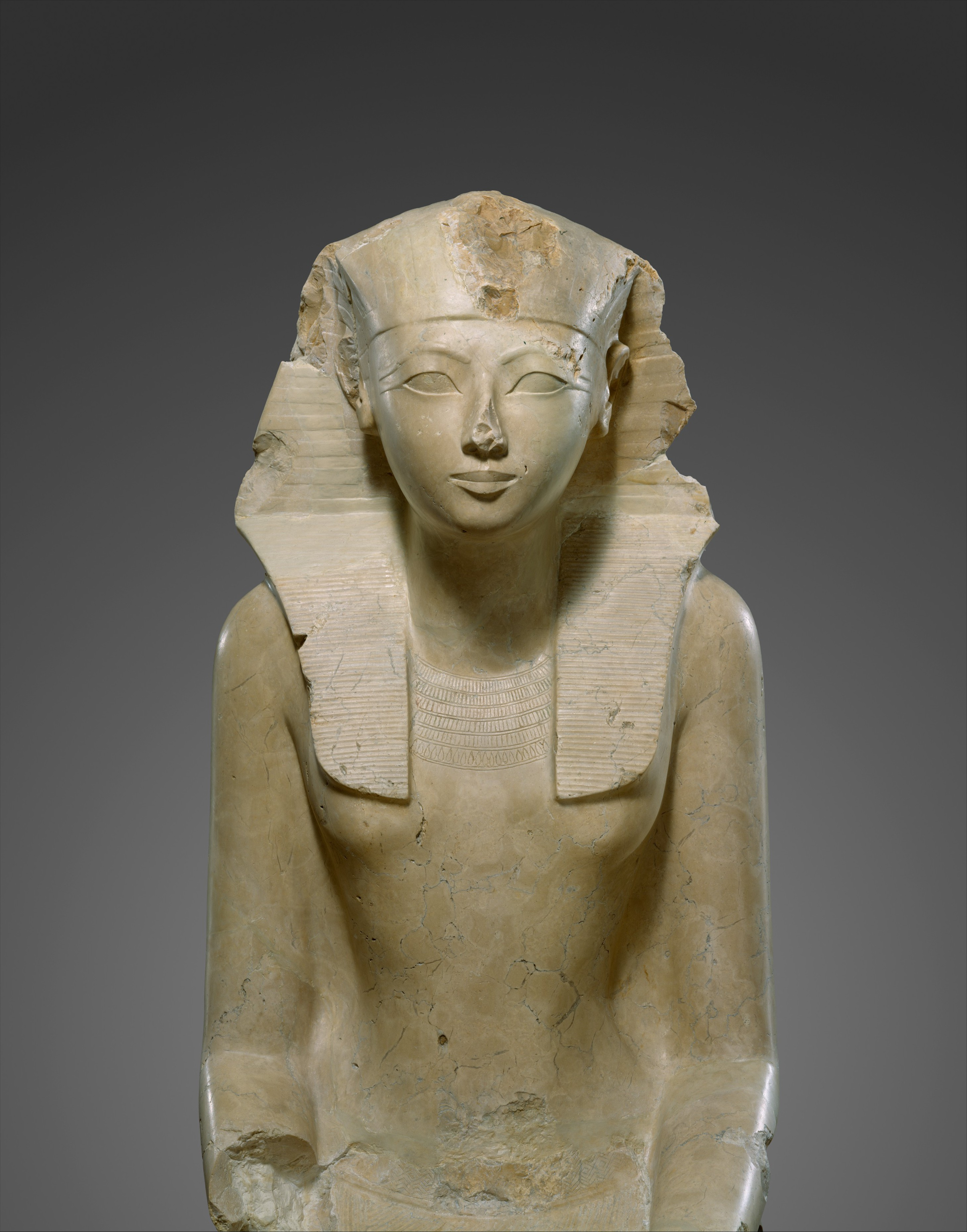 Statue, Hatshepsut, king, seated